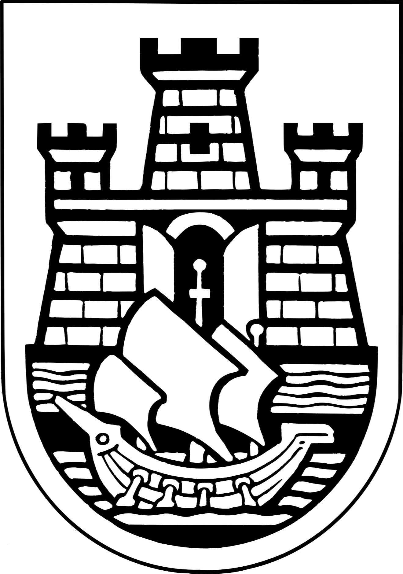 Coat of arms of Belgrade (1960-1991)